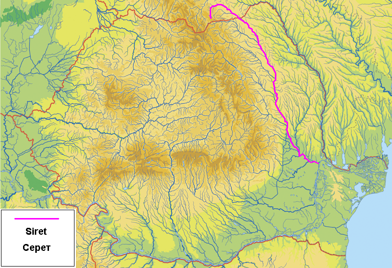 Siret river